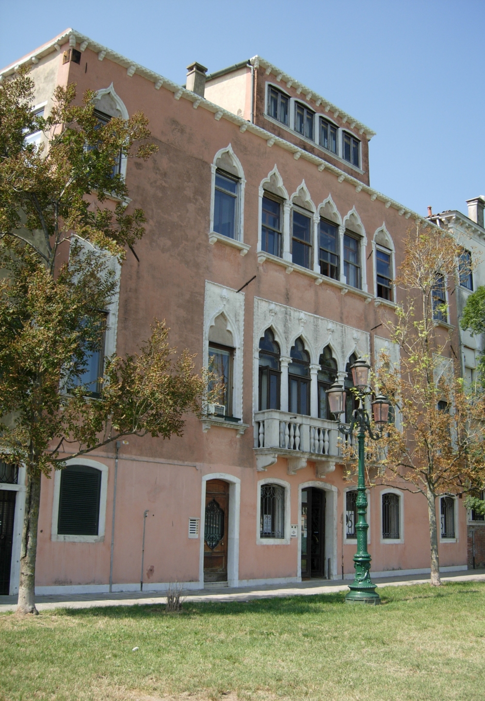 Palazzo Foscari at Giudecca 795, Venice Italy. A Venetian Gothic style palazzetto built in 16th century, it was the home of Giovanni Stucky, founder of the nearby Molino Stucky; now the palazzo hosts Giudecca 795 Art Gallery